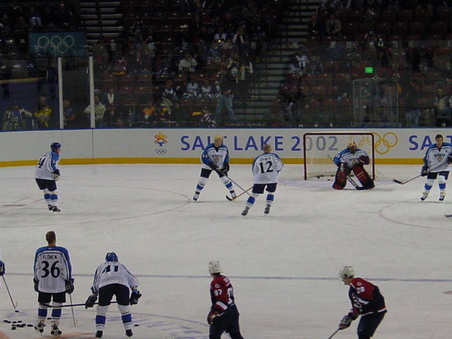 Finland players Warm-up before game against USA, Winter Olympics 2002.